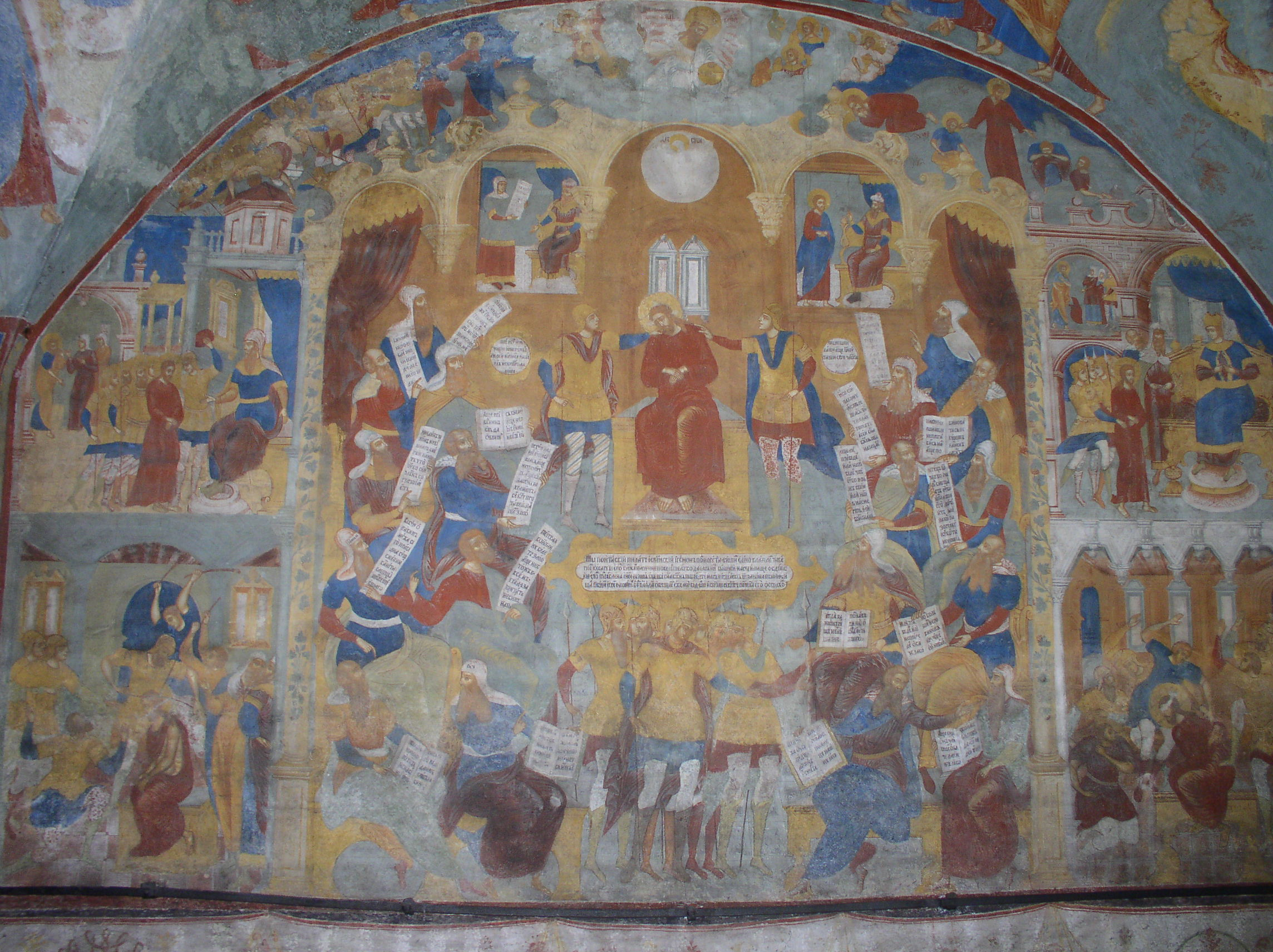 frescoes in the St John the Baptist church in Yaroslavl, Russia